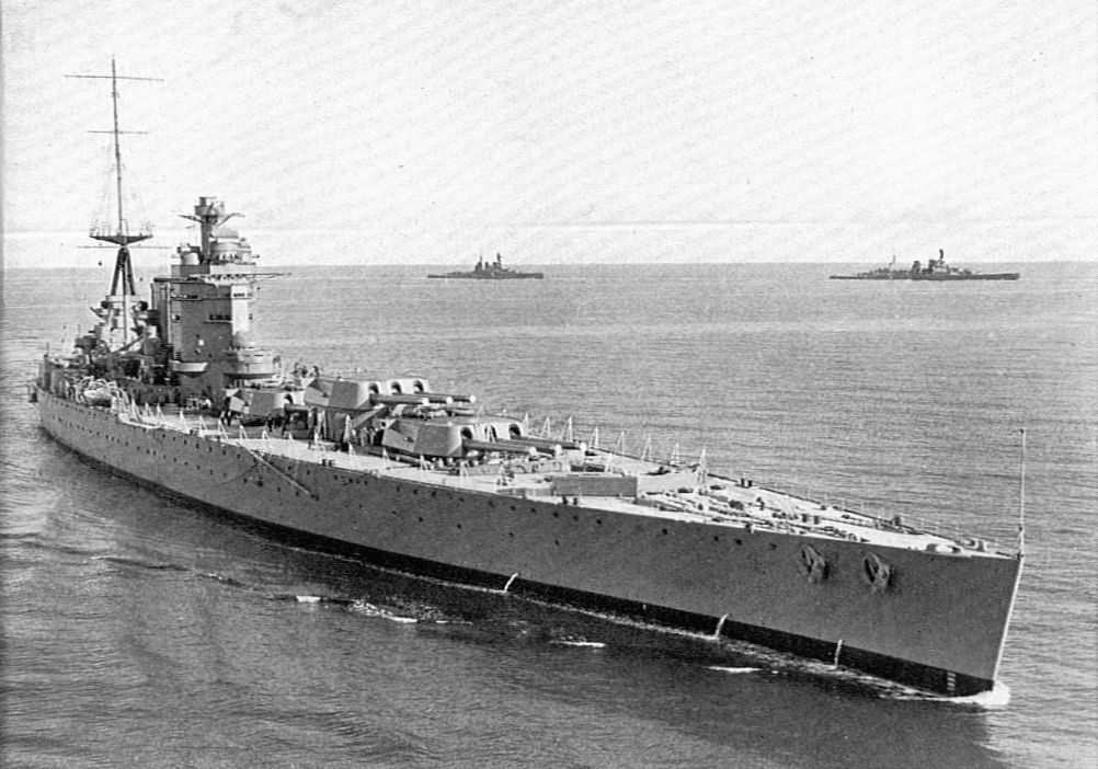 HMS Nelson Photo: Charles E. Brown